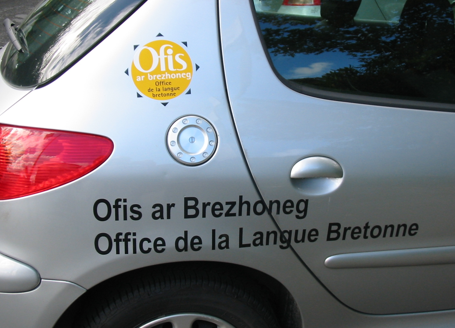 Branding of Ofis ar Brezhoneg (Breton language agency) on car